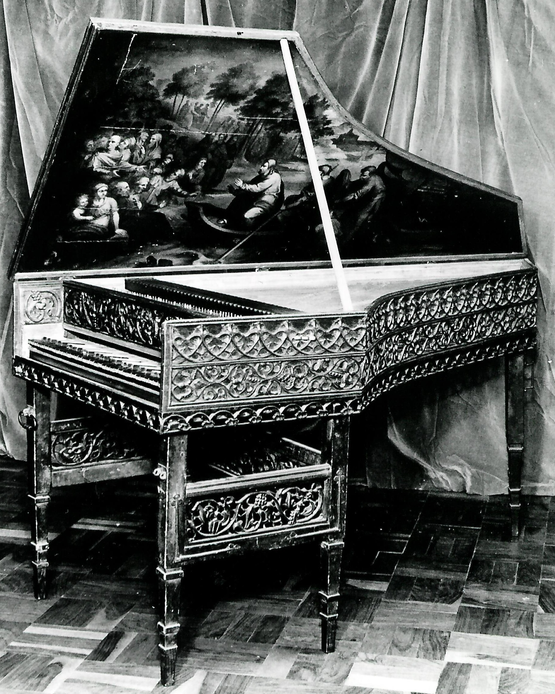 A favourite 16th century Landowska harpsichord from her collection, with painting on lid, presently housed in Hans Adler memorial music collection.[1]- From the Landowska harpsichord collection, now in the Hans Adler memorial music museum, presently housed in Hans Adler Memorial Music Museum at Witwatersrand University, South Africa